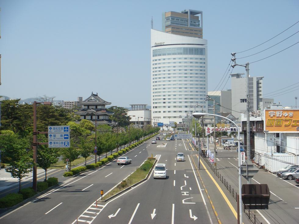 Takamatsu city